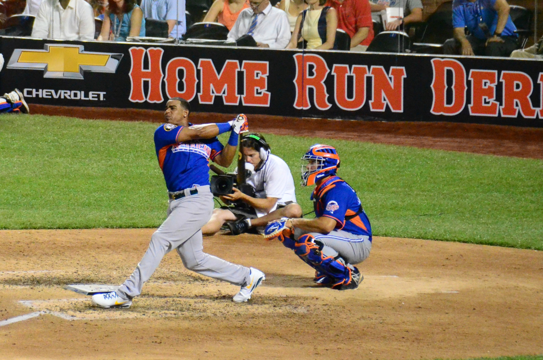 Yoenis Cespedes at the 2013 MLB Homerun Derby